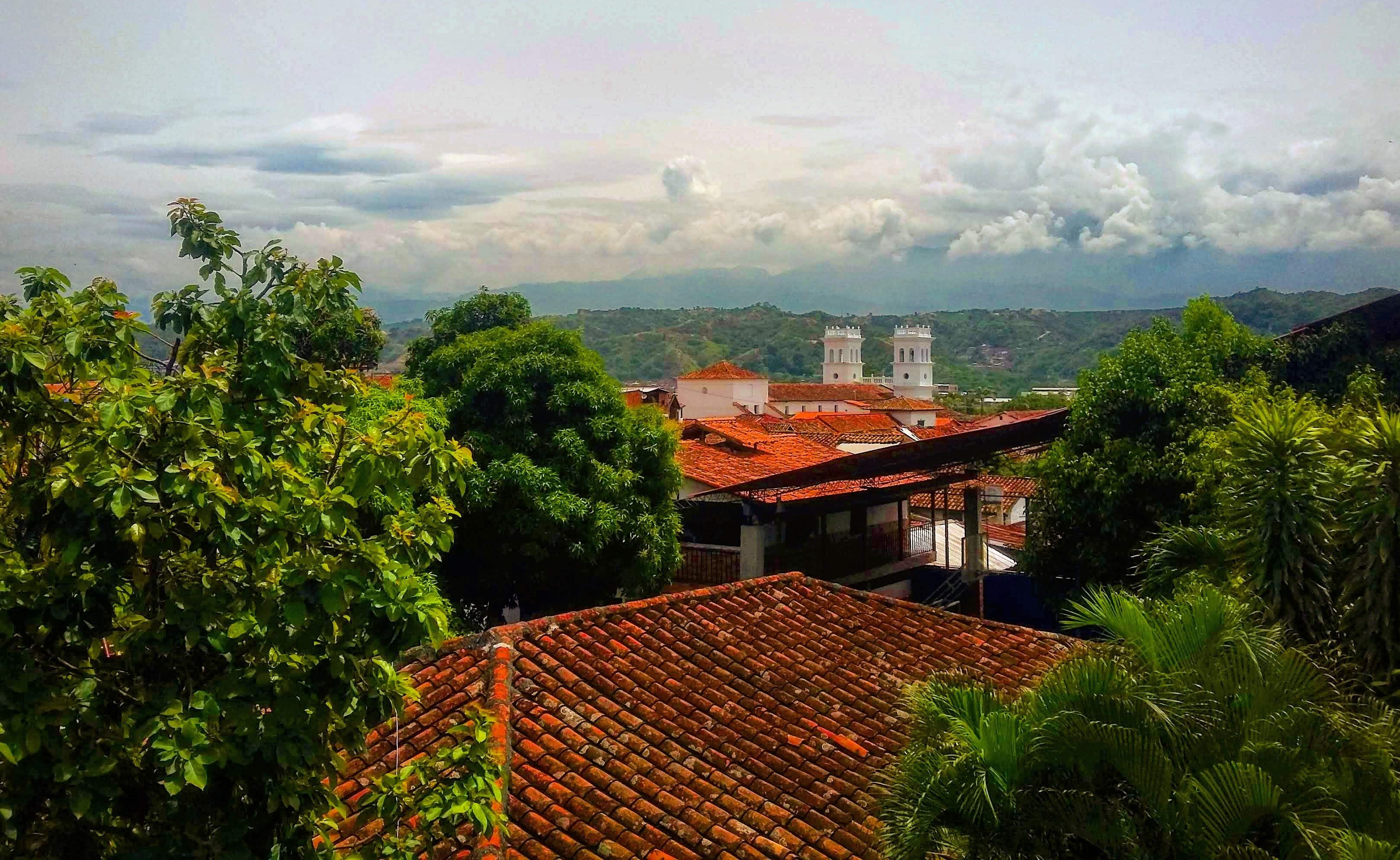 Roofs of the colonial houses in Giron, with the Basilica in the background